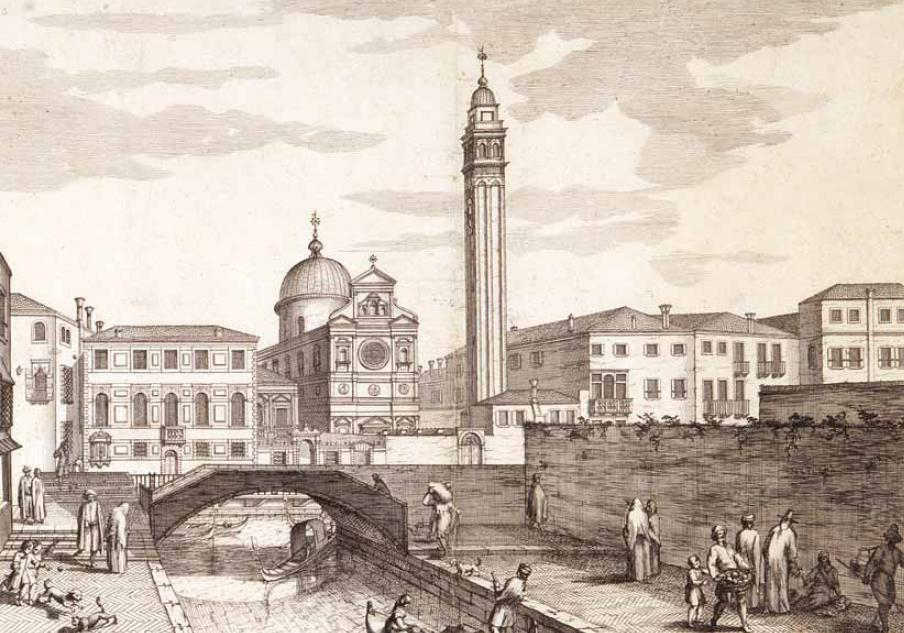 San Giorgio dei Greci (middle) and Flanginian College (left), Venice.